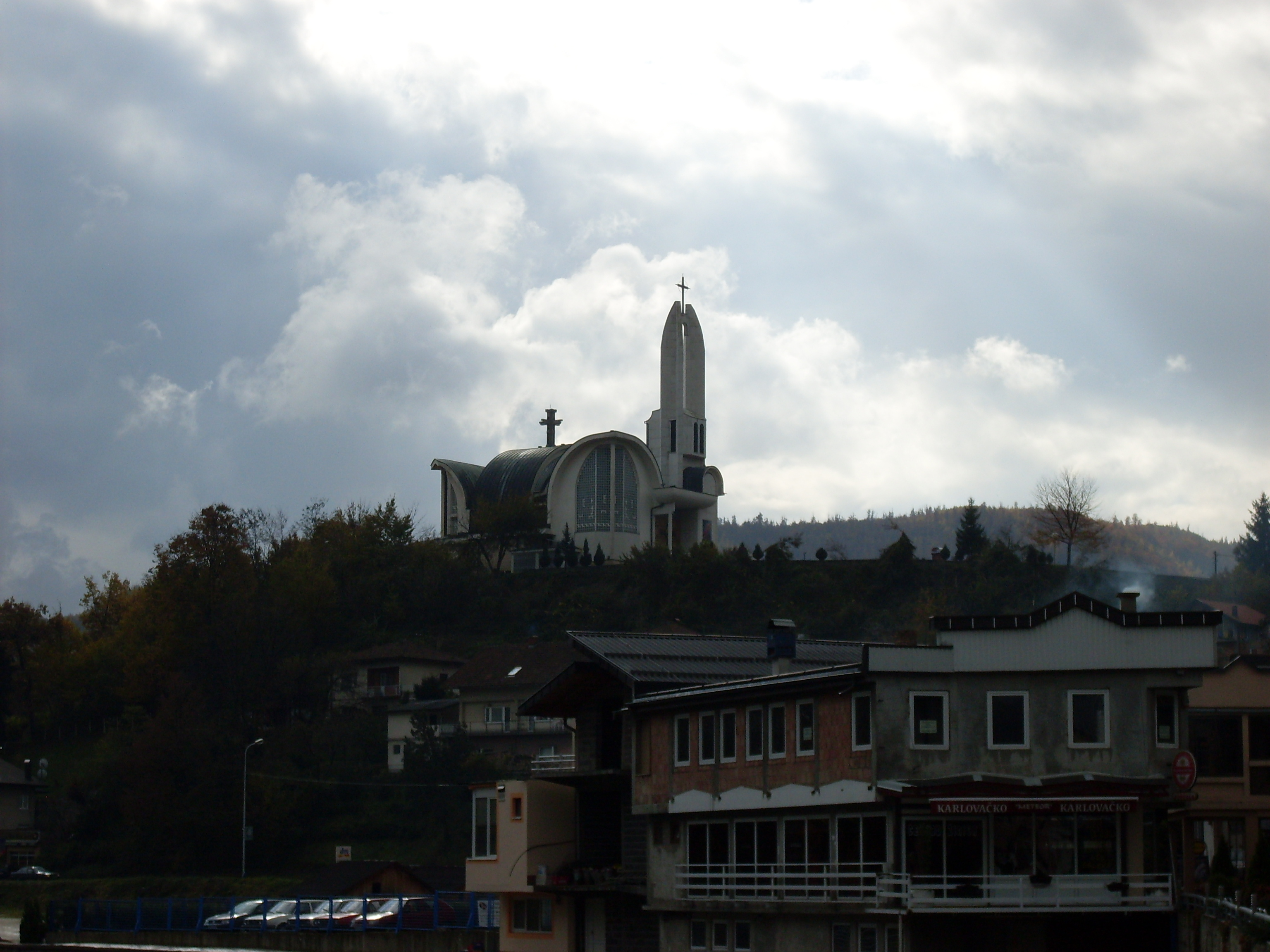 Catholic church in Kiseljak, Bosnia and Herzegovina